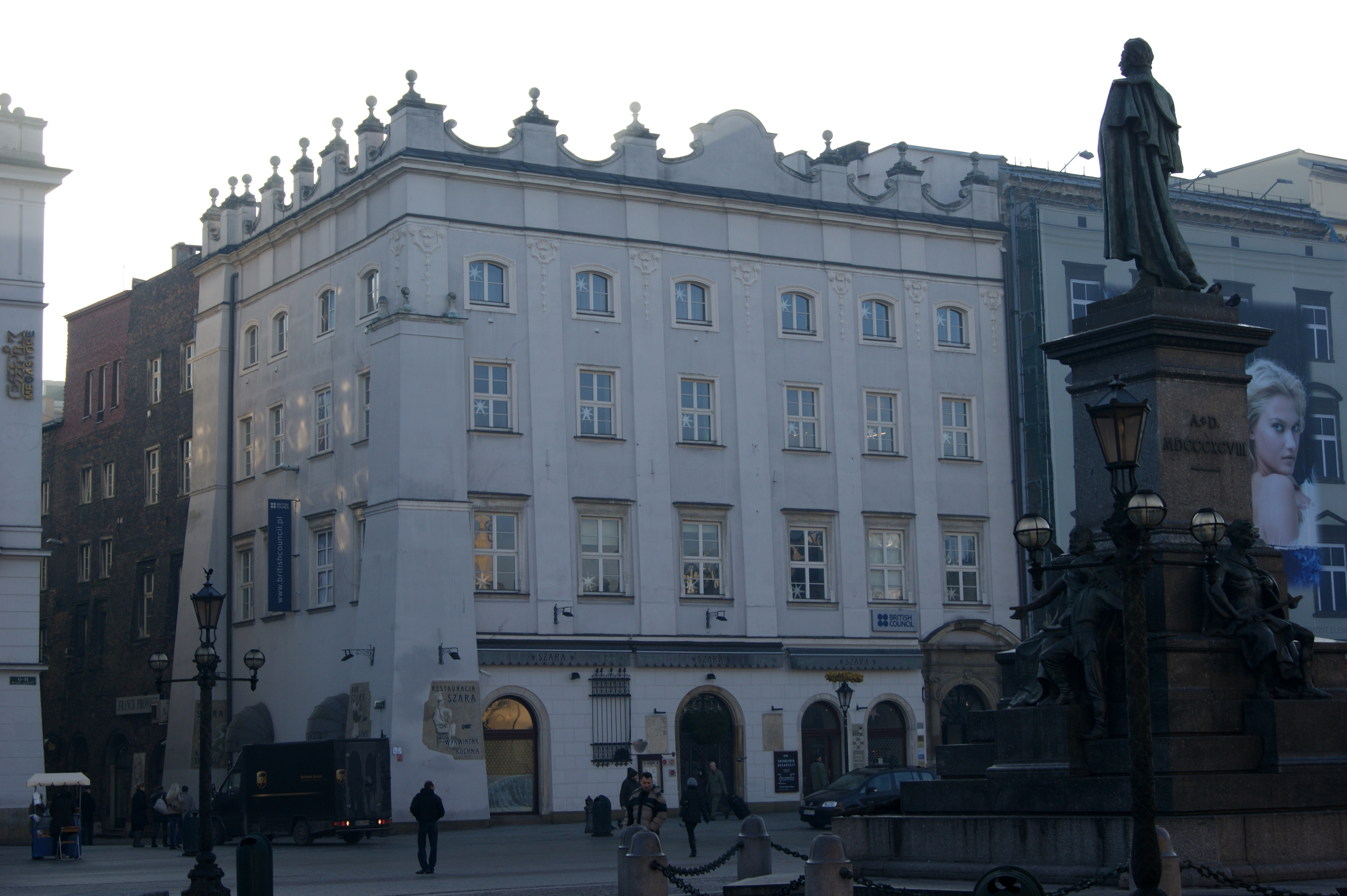 Szara (Grey) house, 6 Main Market Square,Old Town, Krakow,Poland